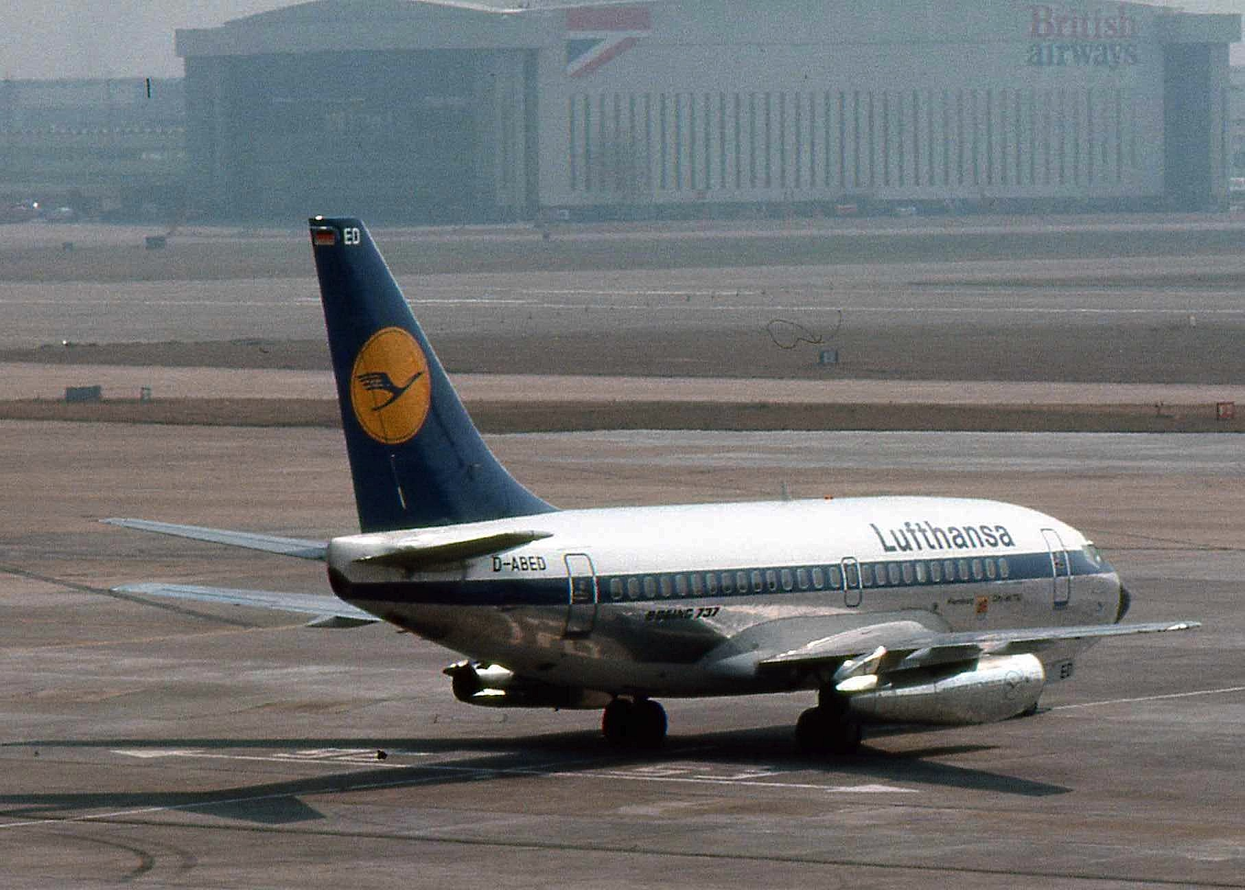 United Kingdom, London Heathrow Airport. Lufthansa Boeing 737-130, D-ABED, c/n 19016/5, first flight on January 20, 1968, delivered to Lufthansa on February 2, 1968. Sold to Asian Aviation Service on November 22, 1982. Sold to America West Airlines on April6, 1984 registered N703AW. Leased to Ansett New Zealand on April 27, 1987 registered ZK-NEC. Stored at Christchurch on December 17, 1989. Sold to Transpacific Enterprises in September 1993. Sold to Rovair Enterprise Inc. on October 5, 1995. Broken up in January 2001 at Tucson.